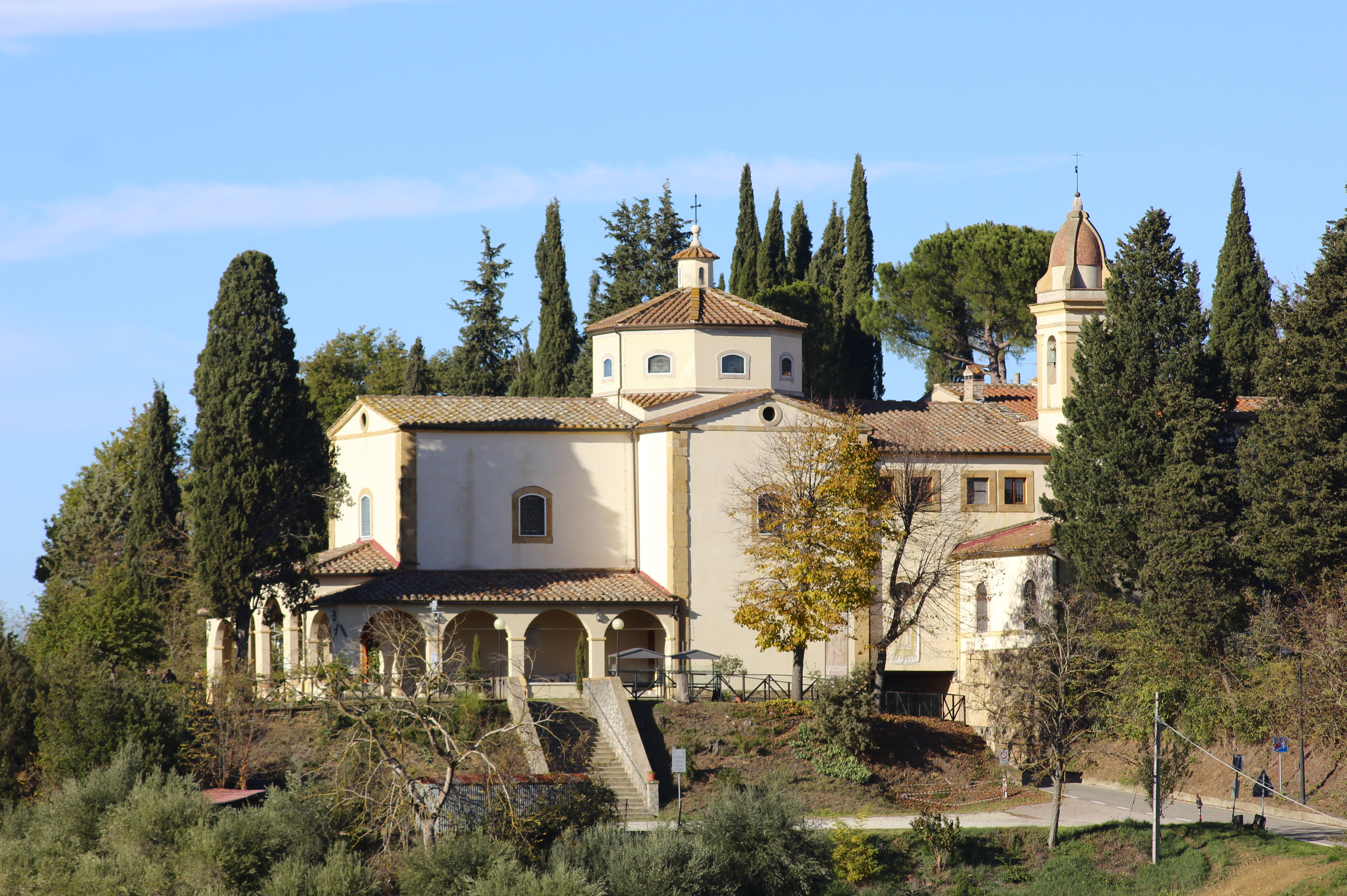 Santuario di Maria Santissima Madre della Divina Provvidenza, Church in Pancole, San Gimignano, Province of Siena, Tuscany, Italy